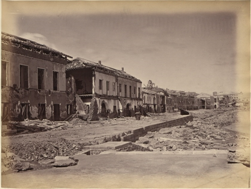 Praya & Grande Macao, destroyed by typhoon on the 22 Sep 1874 from the front of De Mello & Co's buildings looking east, Macao.